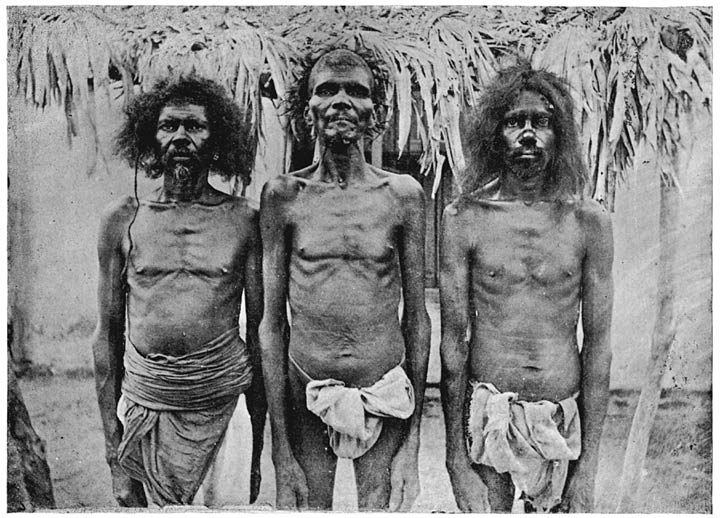 Group of 3 Yanadi tribals, Madras Presidency, 1909